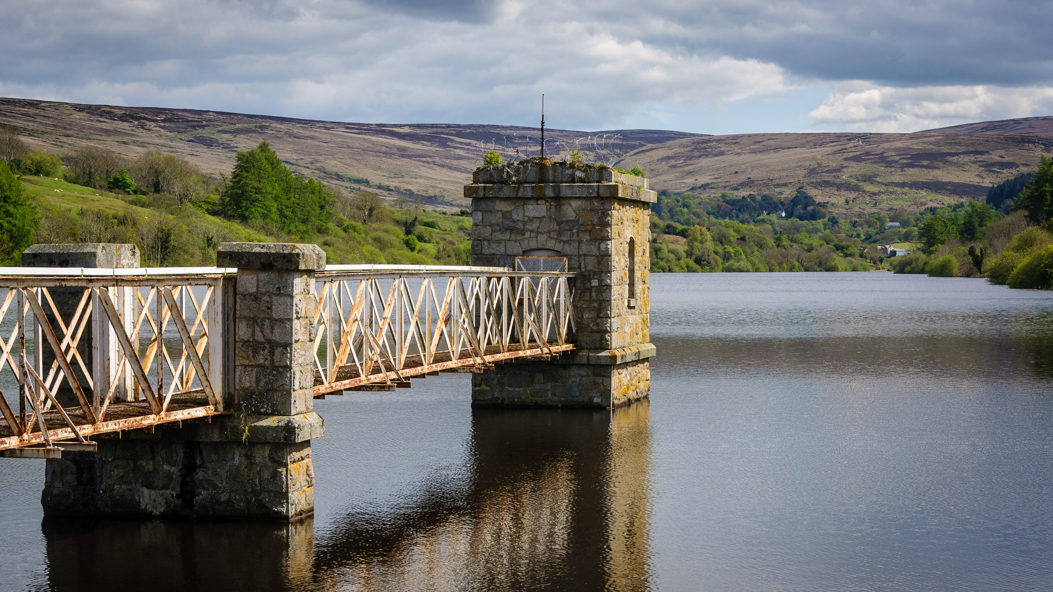 The upper reservoir of the Bohernabreena Waterworks, Glenasmole, County Dublin, Ireland